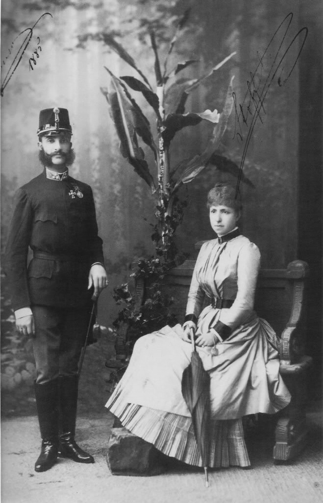 Alfonso XII with his second wife Maria Christina of Habsburg